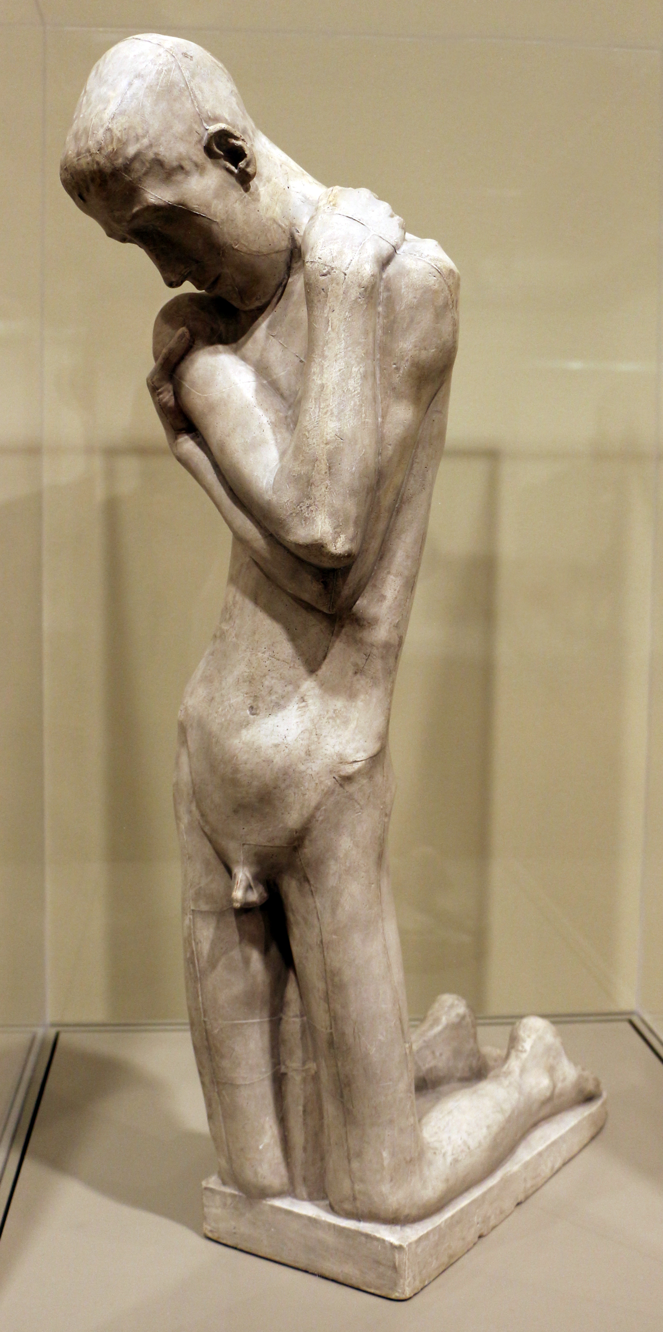 European sculpture in the Art Institute of Chicago